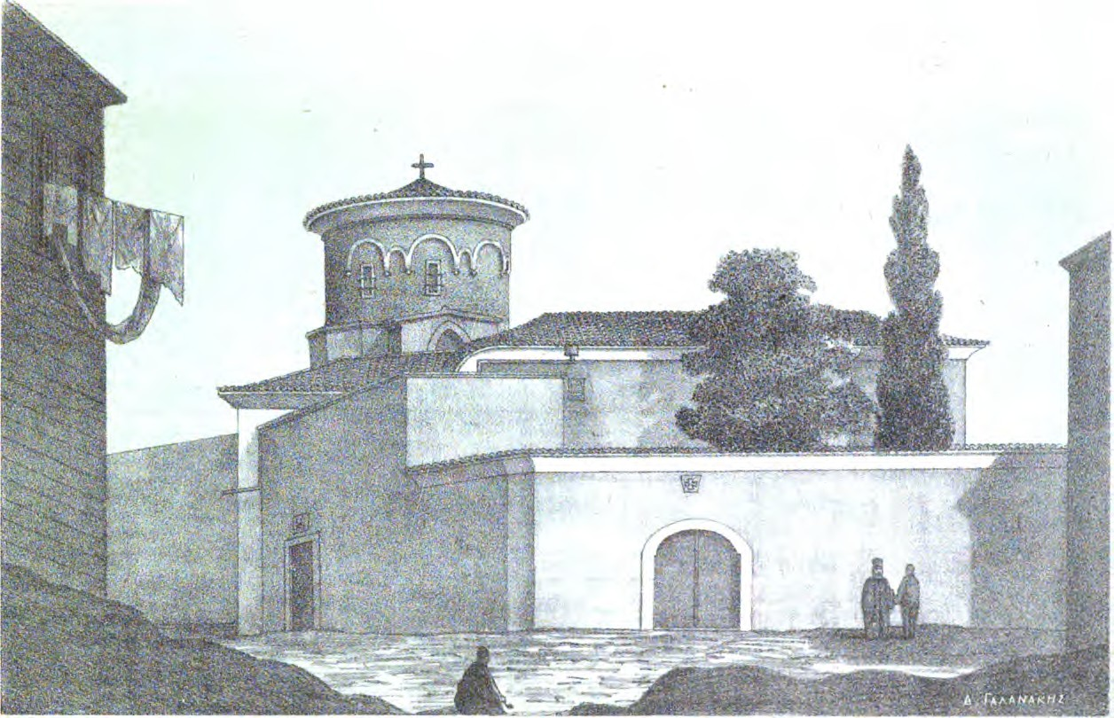 Byzantinai meletai topographikai (1877) Author: Paspatēs, Alexandros Geōrgiou, 1814-1891. [from old catalog] Subject: Inscriptions, Greek Year: 1877 Possible copyright status: NOT_IN_COPYRIGHT Language: English Digitizing sponsor: Google Book contributor: Oxford University Collection: europeanlibraries